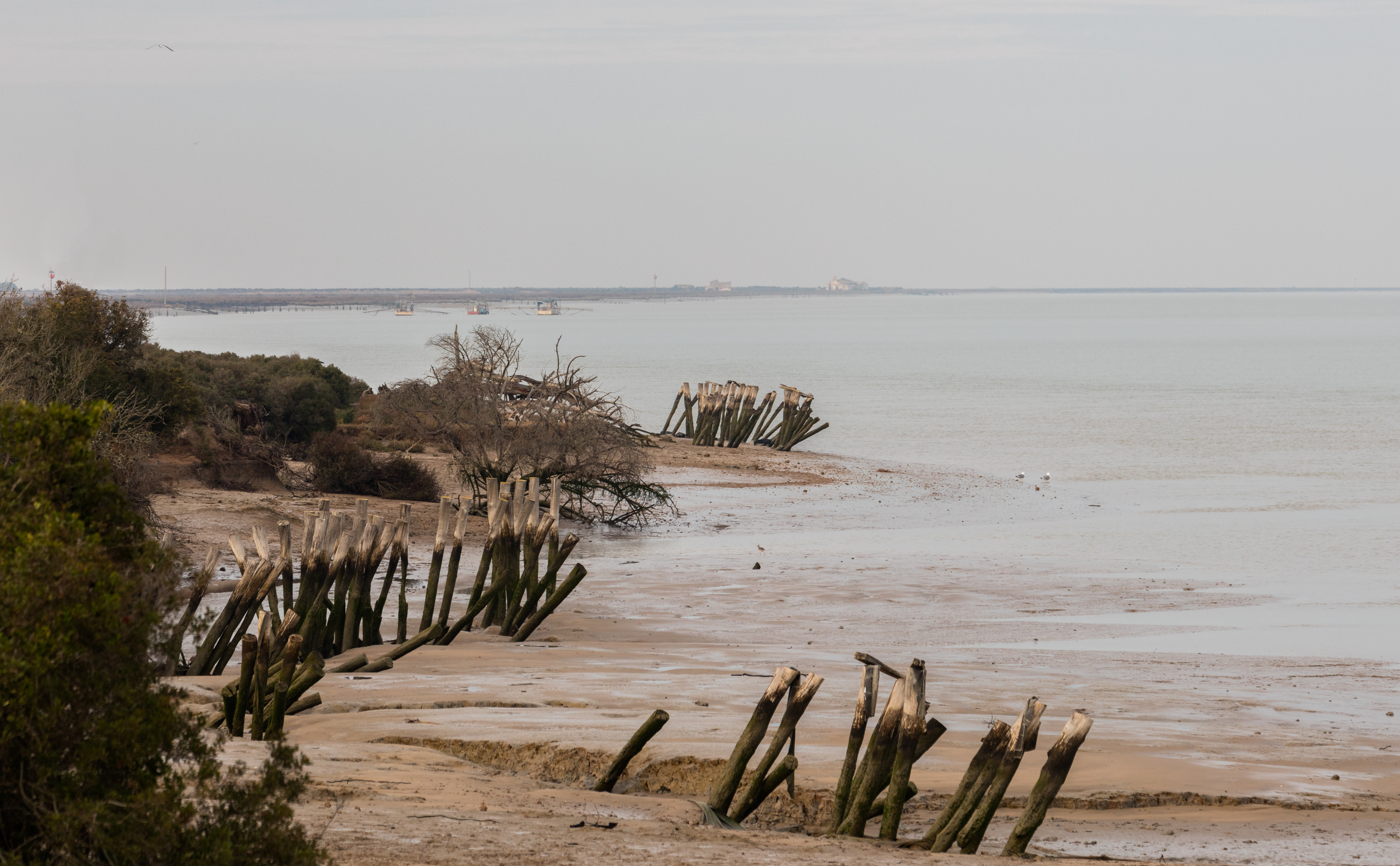 Landscape in Natural Park of Doñana, Huelva, Spain